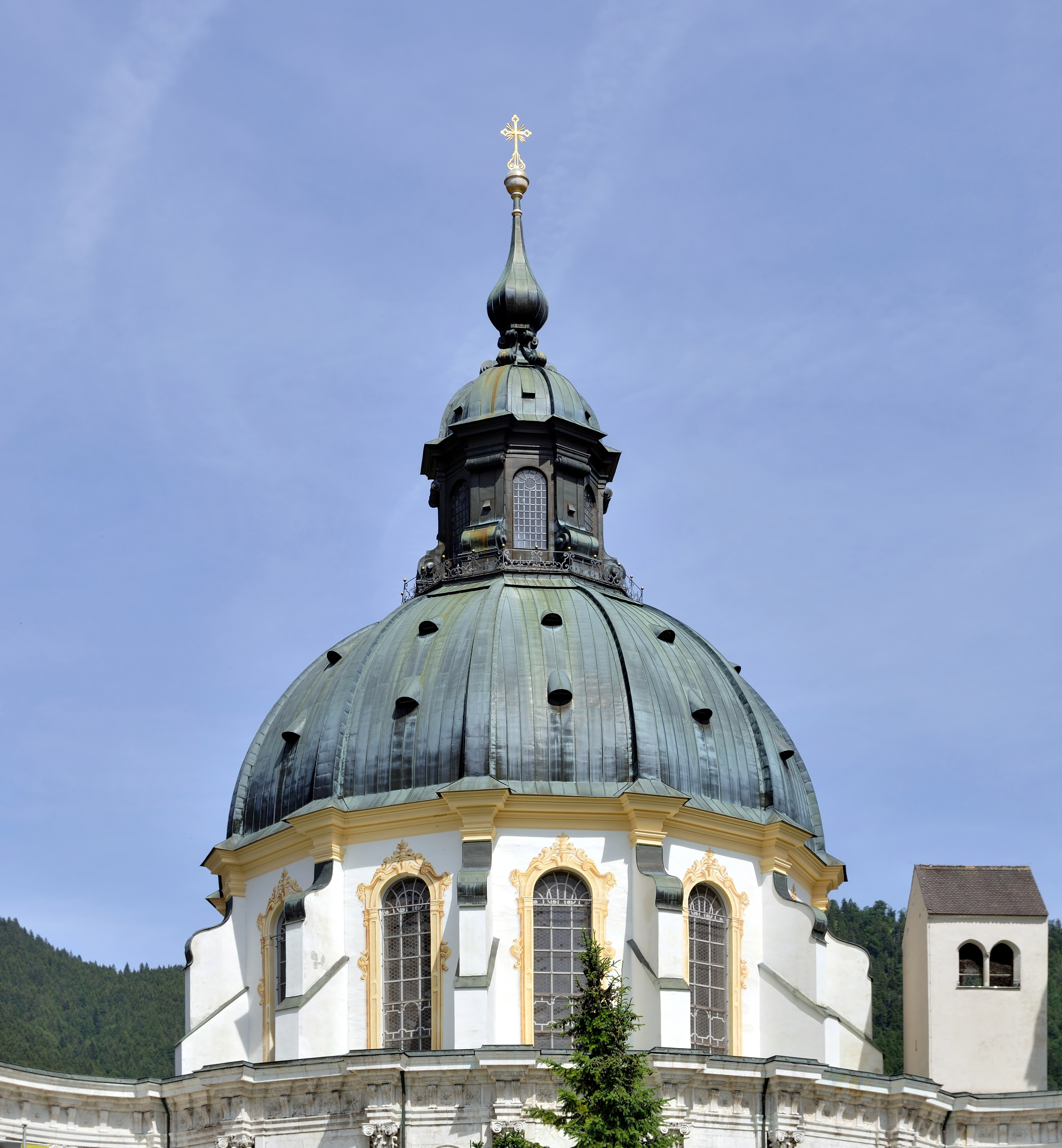 Ettal Abbey